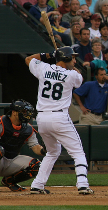 Raúl Ibáñez at bat on August 2, 2008.